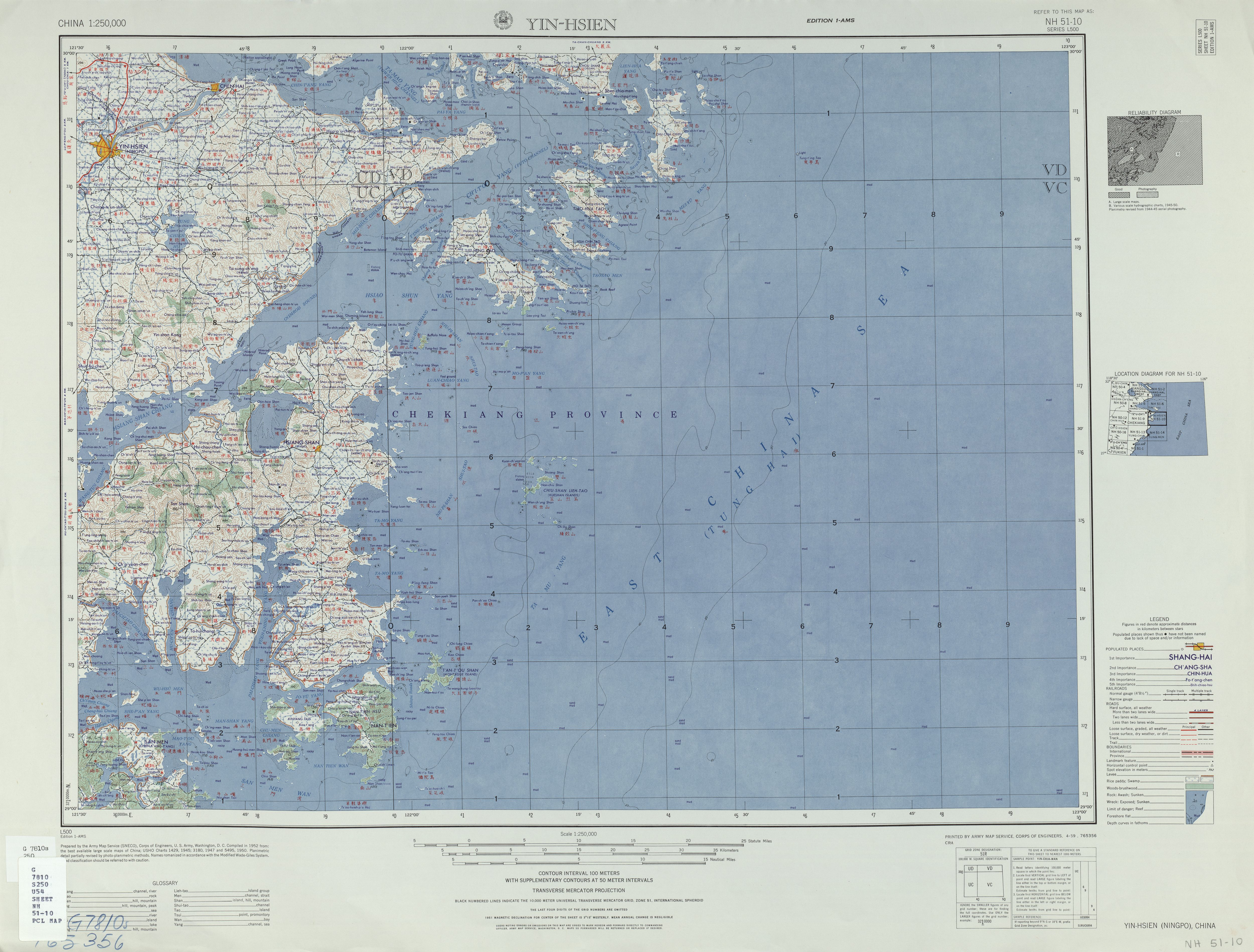 US Army map of the Ningbo area in Zhejiang, China, based on WWII-era information. All placenames given in Wade-Giles or Postal Map romanization, as Yin-hsien for Yinxian (present-day Yinzhou District).